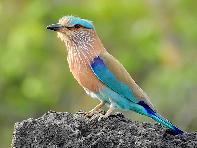 Indian Roller Coracias benghalensis, in Mangaon, Maharashtra, India